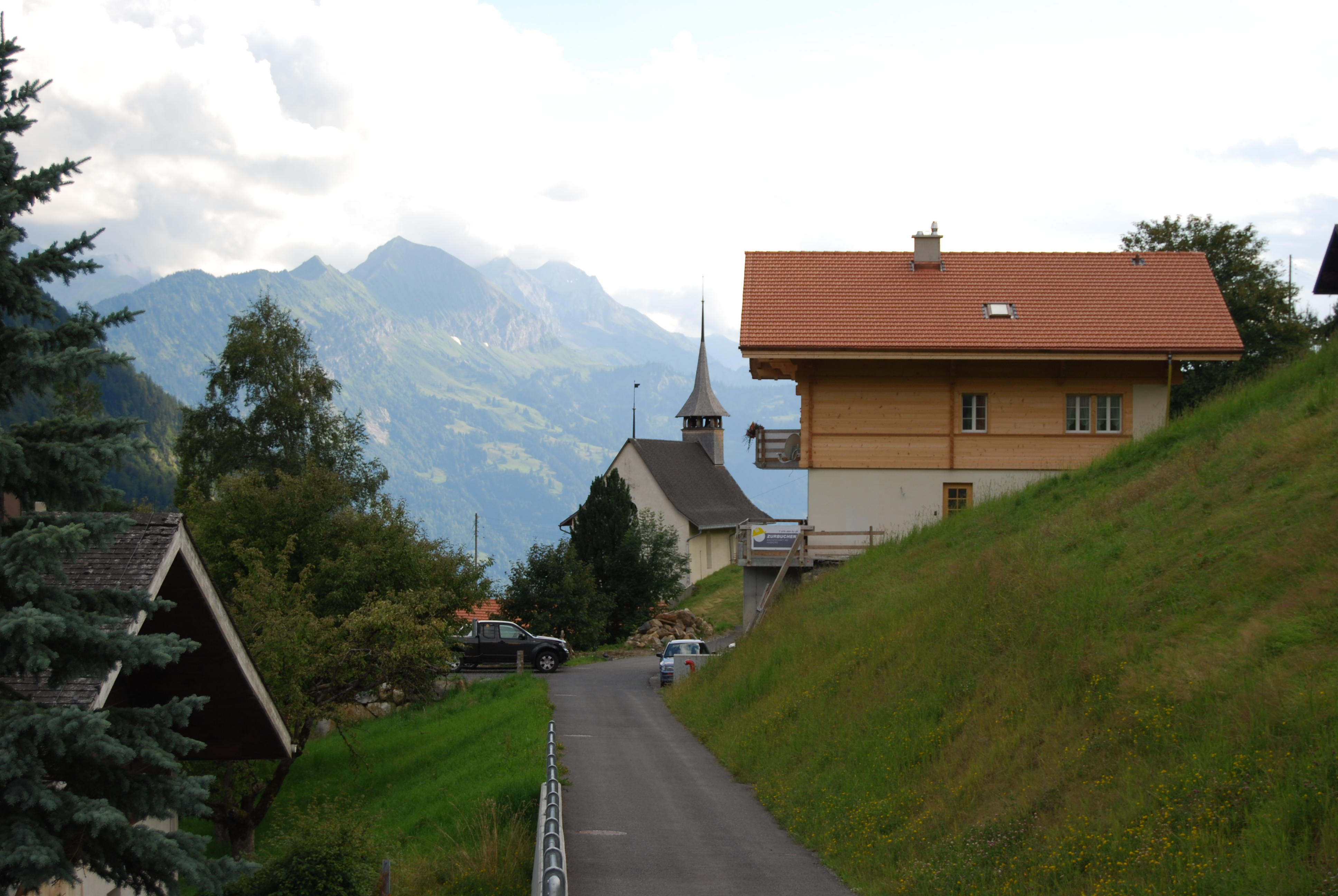 Church of Habkern, canton of Bern, SwitzerlandEsperanto: Preĝejo de Habkern, Kantono Berno, Svislando